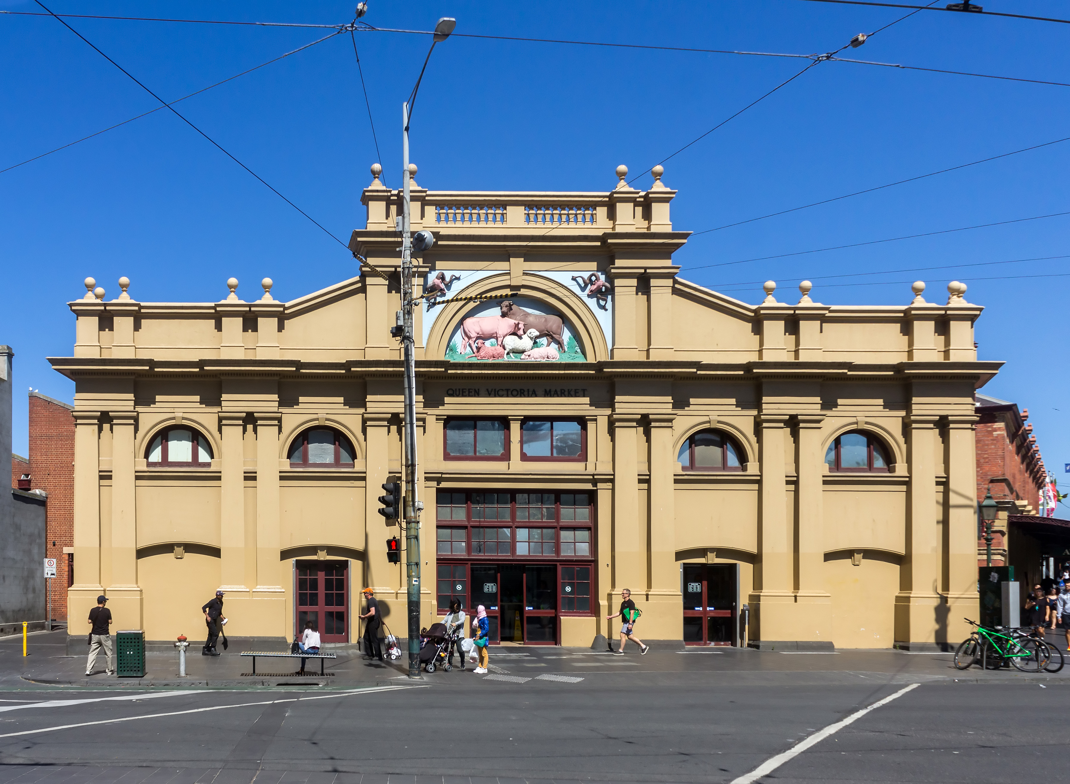 Meat and Fish Hall, Queen Victoria Market, Melbourne, 2017-10-29